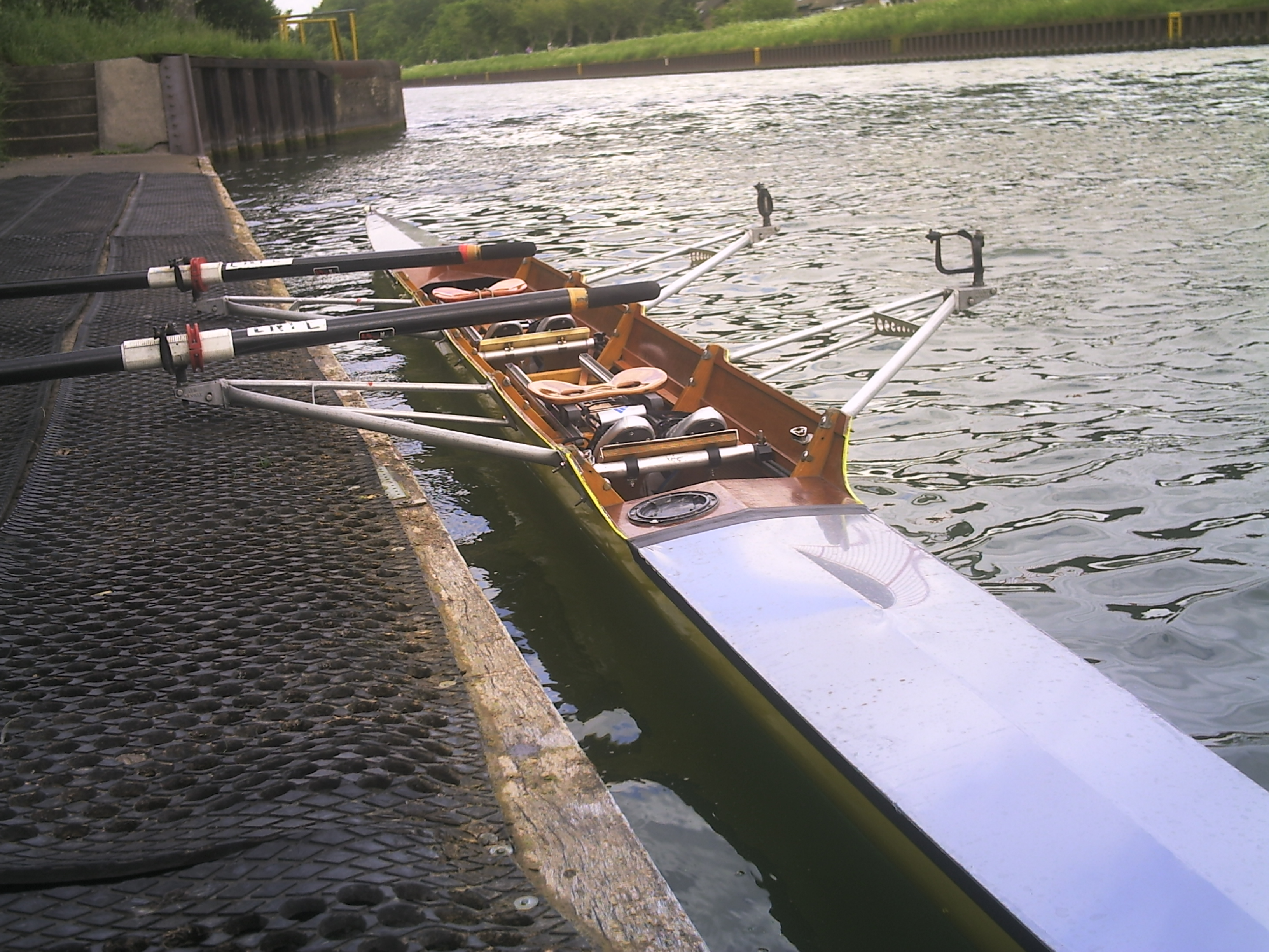 Childrens rowing boat